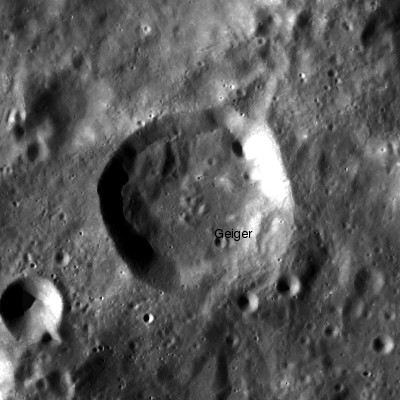 LROC image of Geiger crater